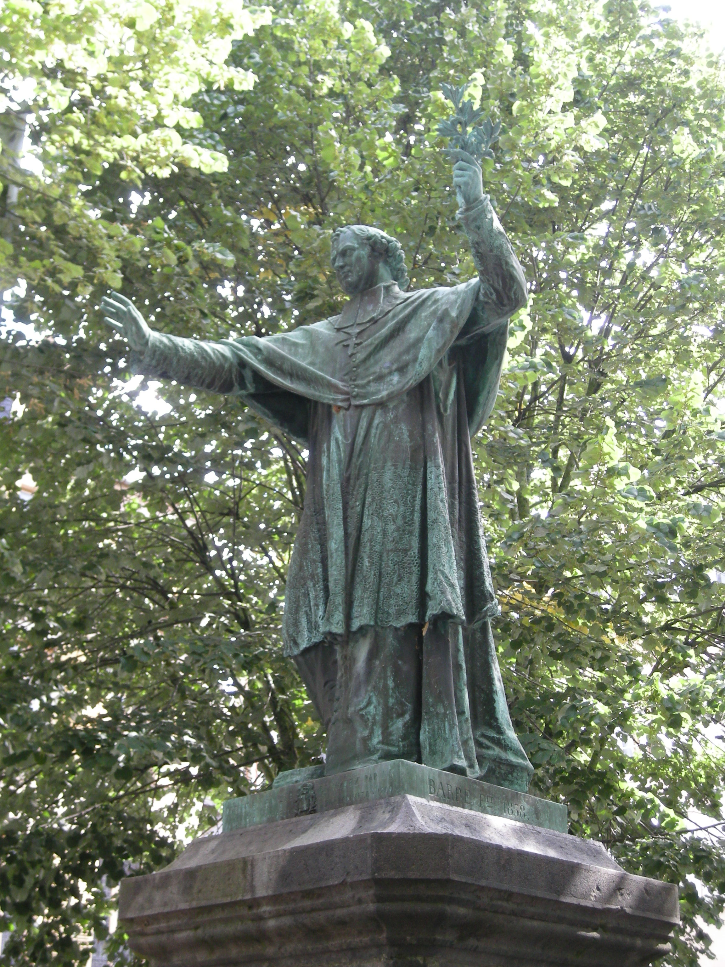 Statue of Auguste-Denis Affre, former archbishop of Paris, in Rodez (Aveyron)